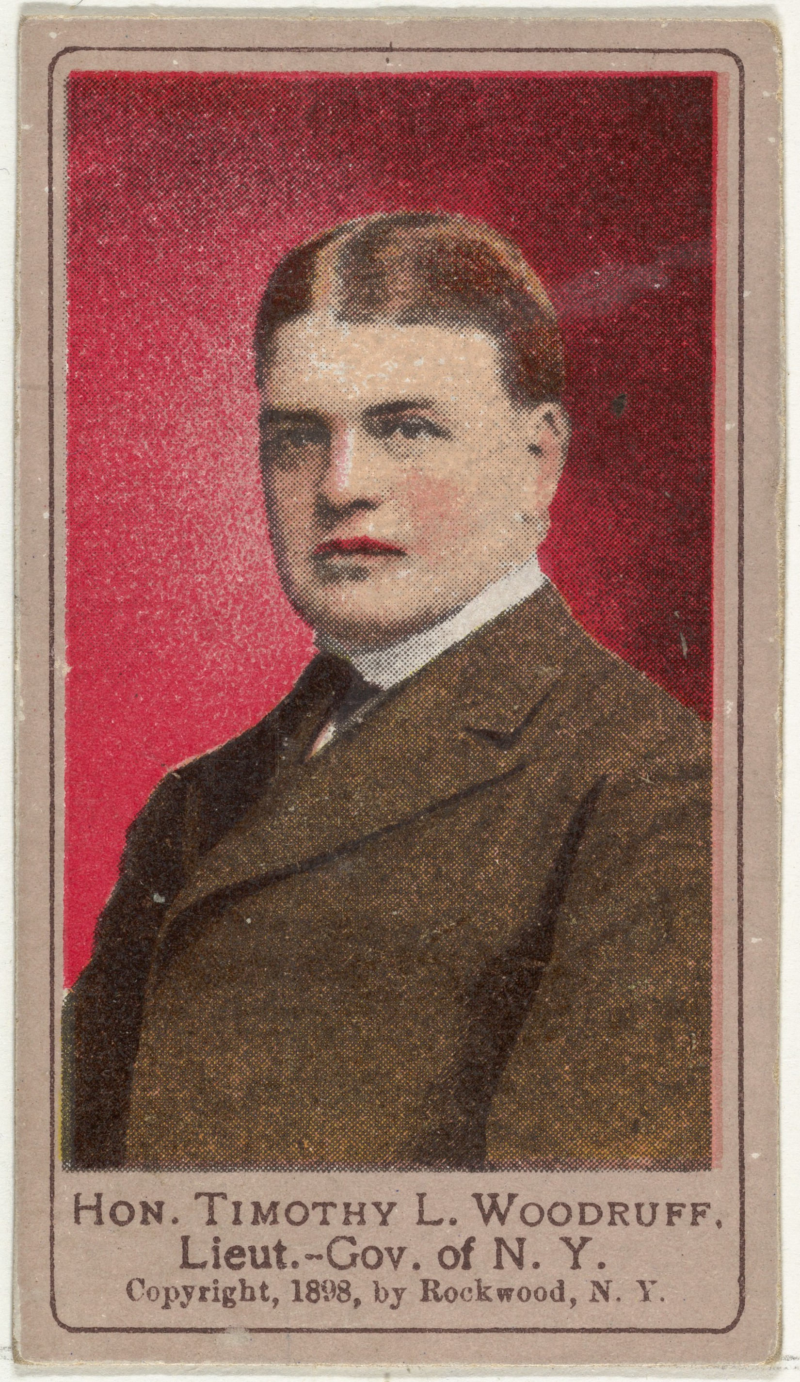 Print; Prints